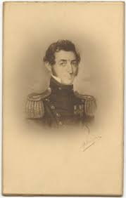 Admiral Thomas Charles Wright